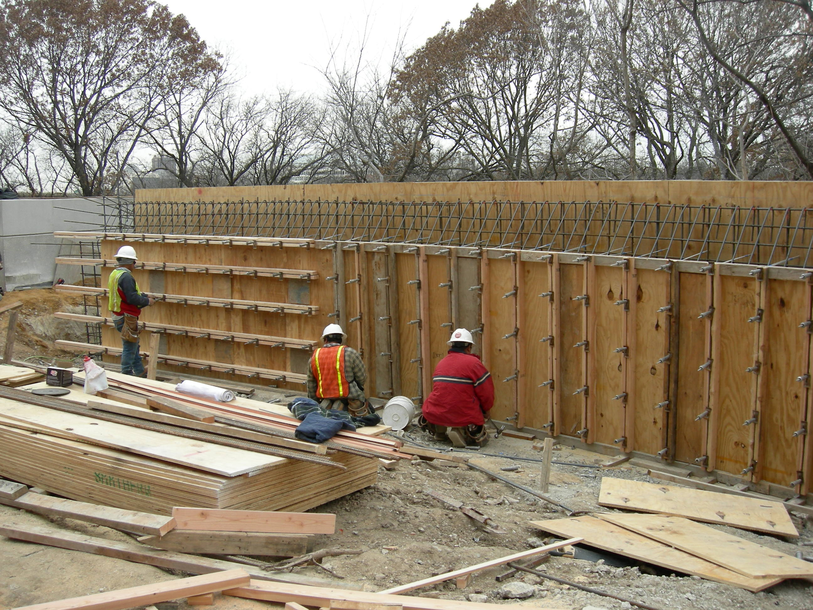 Katy Trail overlook under construction. Dallas, Texas.